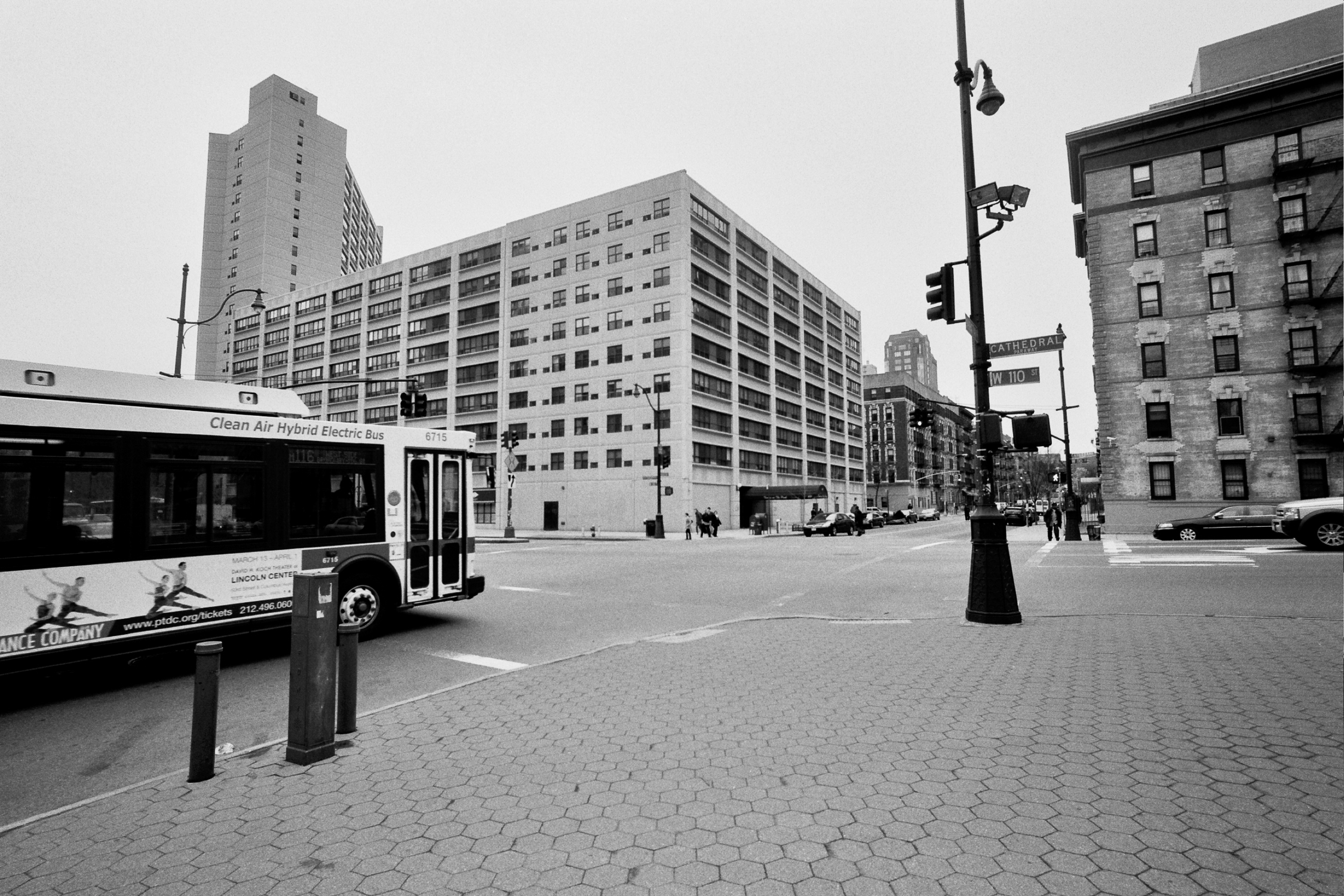 West 110th St. and Manhattan ave